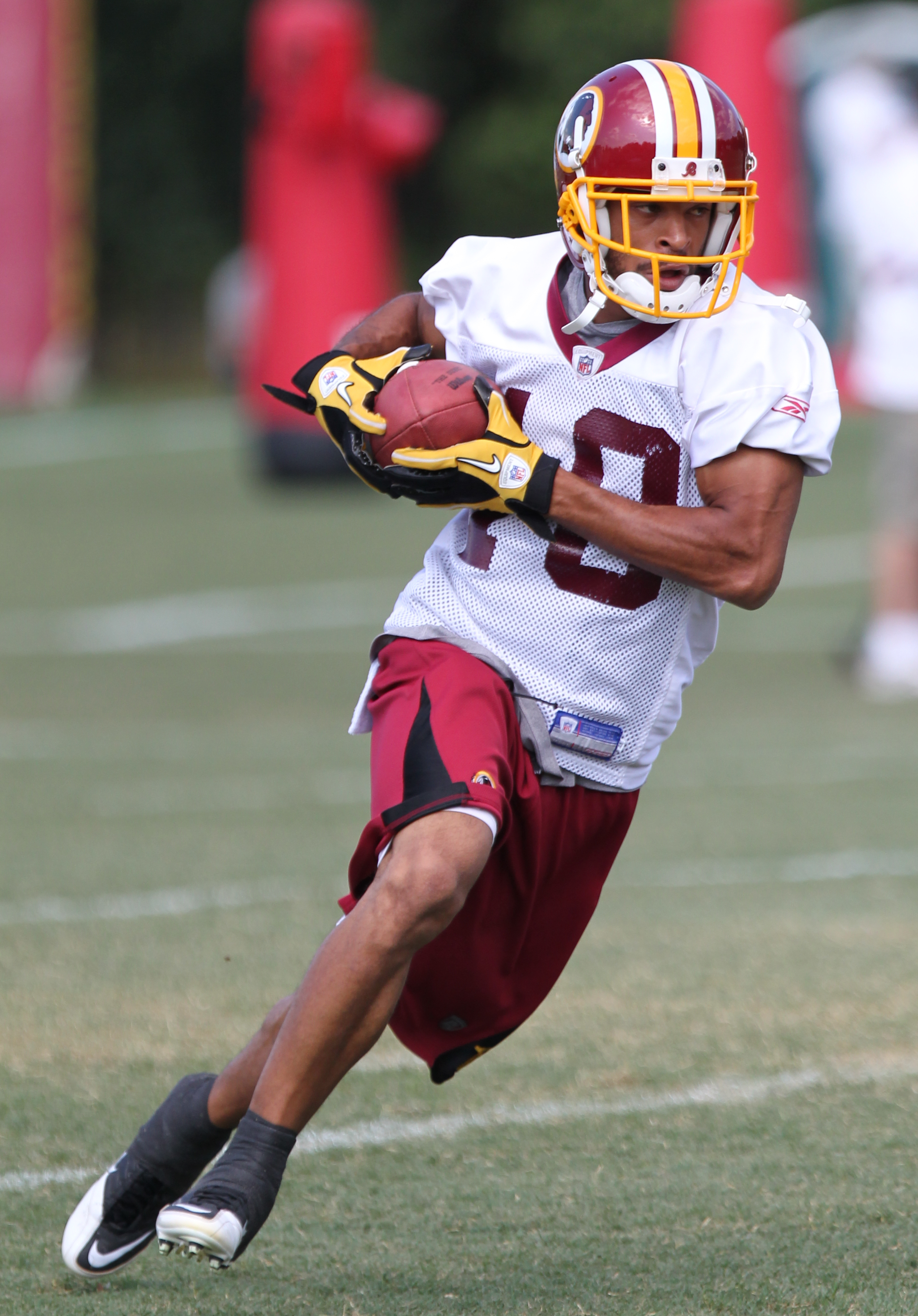 Washington Redskins Training Camp August 4, 2011